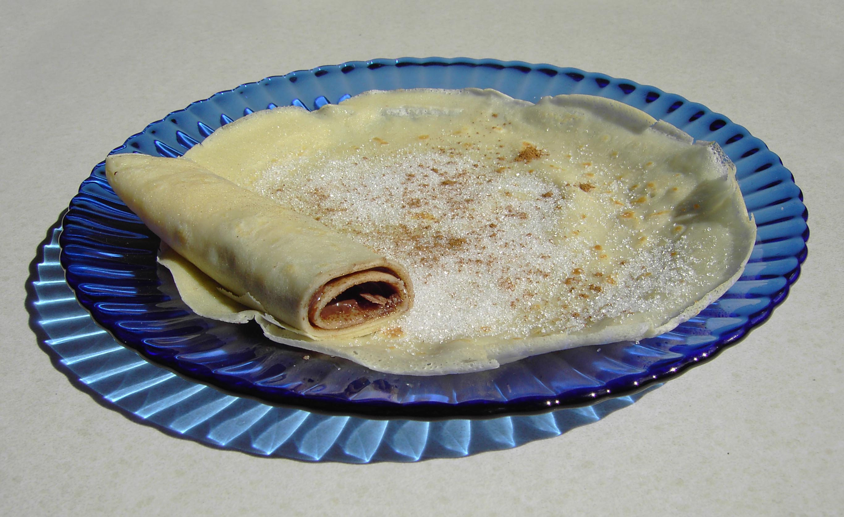 Two pancakes: one with sugar and cinnamon, the other with Nutella.